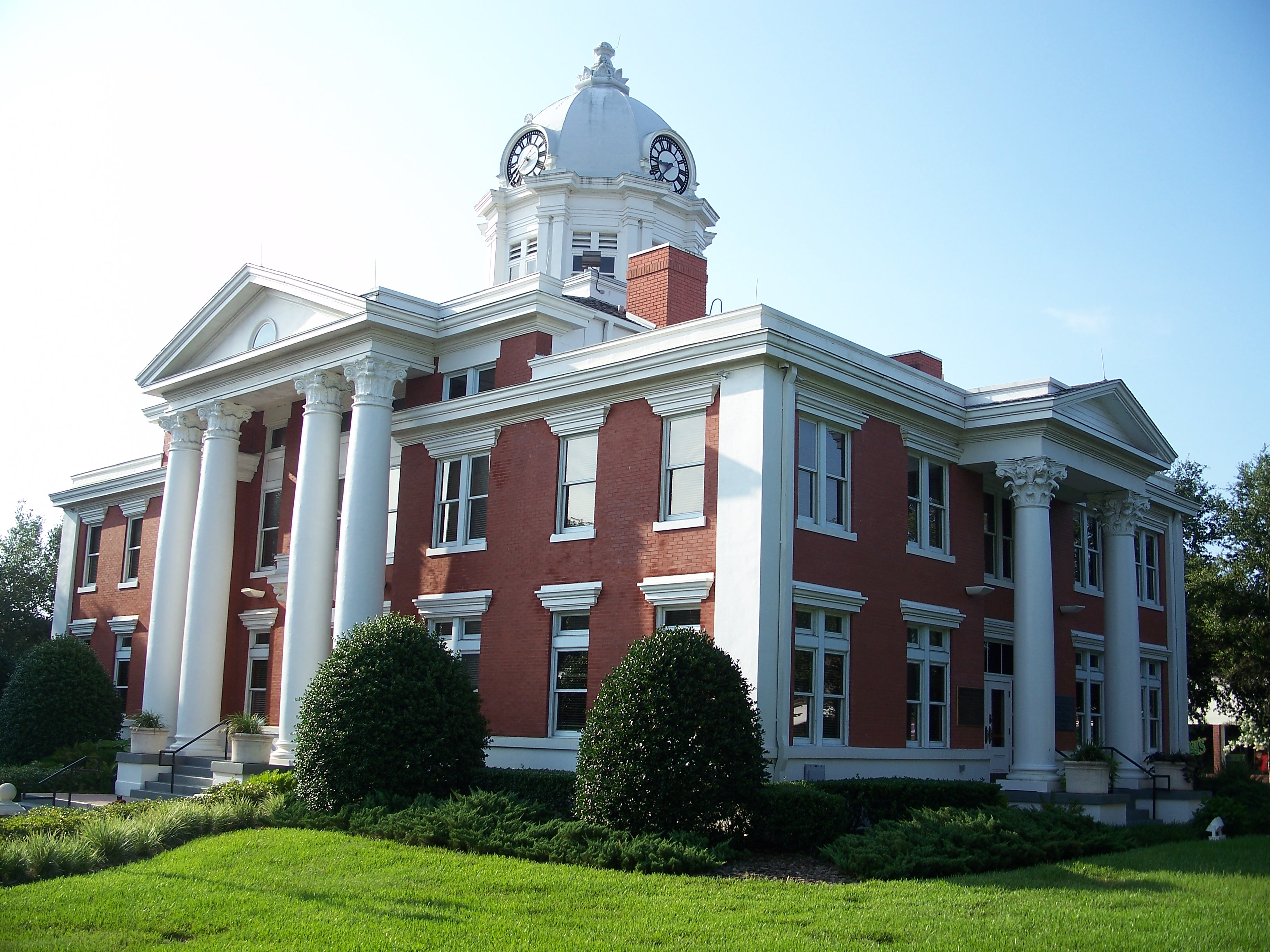 Dade City: Pasco County Courthouse: Looking southeast